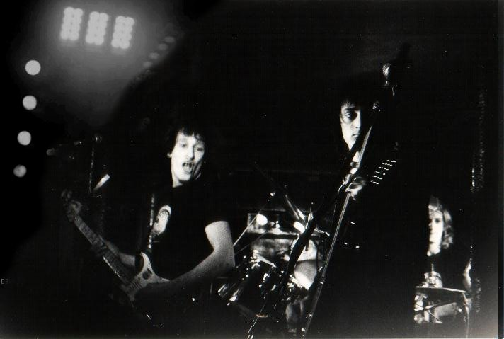 This is a photograph of UK Power trio "Killerhertz" circa 1981- performing Live at Camden Town's "Dingwalls"